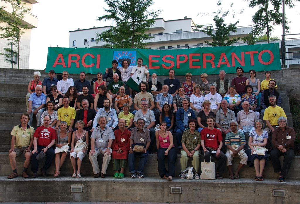 82nd congress of the Sennacieca Asocio Tutmonda[alternatively: Non-National] Association, Milan, 2009